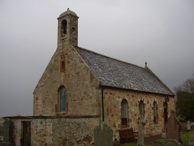 Morham Kirk The present church was built in 1724 replacing an older structure. The lost village of Morham(e) formed the centrepiece of one of the most important parishes in Haddingtonshire (East Lothian) All that remains is some scattered houses, farms and, of course, the old church. It's believed a church has stood on the same spot since the 12th century.